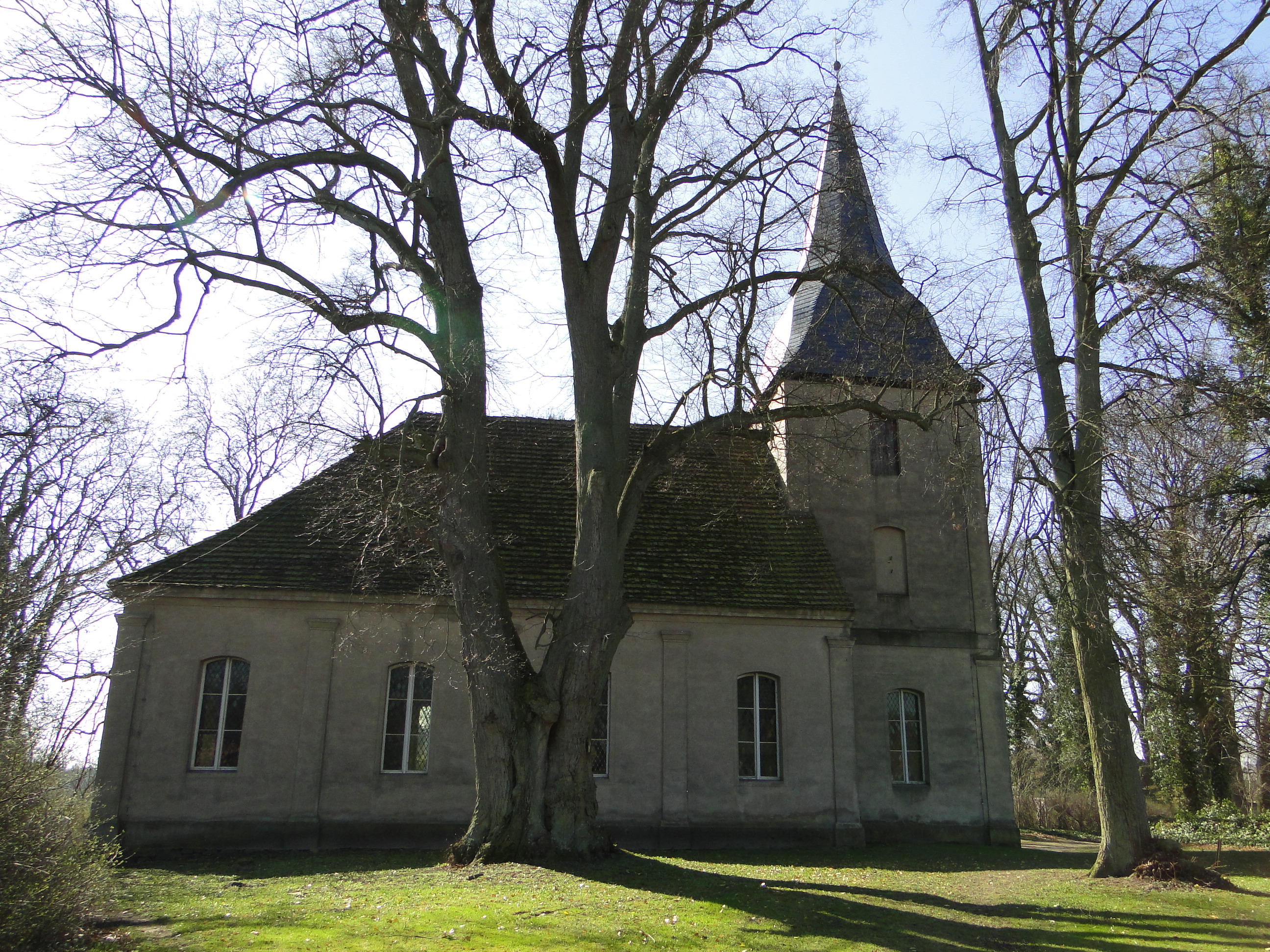 Church in Schwarz, disctrict Müritz, Mecklenburg-Vorpommern, Germany